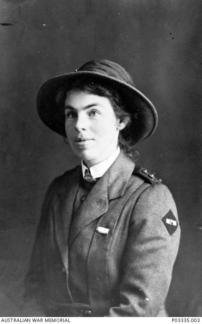 Sister Muriel Burbury, Australian Army Nursing Service. She wears the rank of lieutenant and, on her left shoulder, the Anzac 'A' Badge on the Unit Colour Patch of the 3rd Australian General Hospital